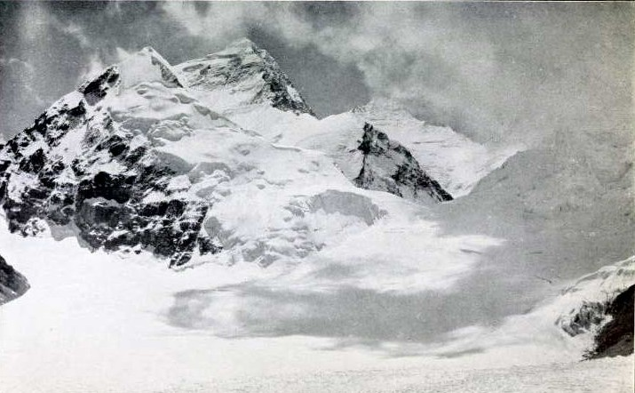 Photograph by George Mallory (18 June 1886 – 8 or 9 June 1924) fron page 219 of Howard-Bury, C. K. (1922). Mount Everest the Reconnaissance, 1921 (1 ed.). New York, Longman & Green. Howard-Bury (15 August 1881 – 20 September 1963)